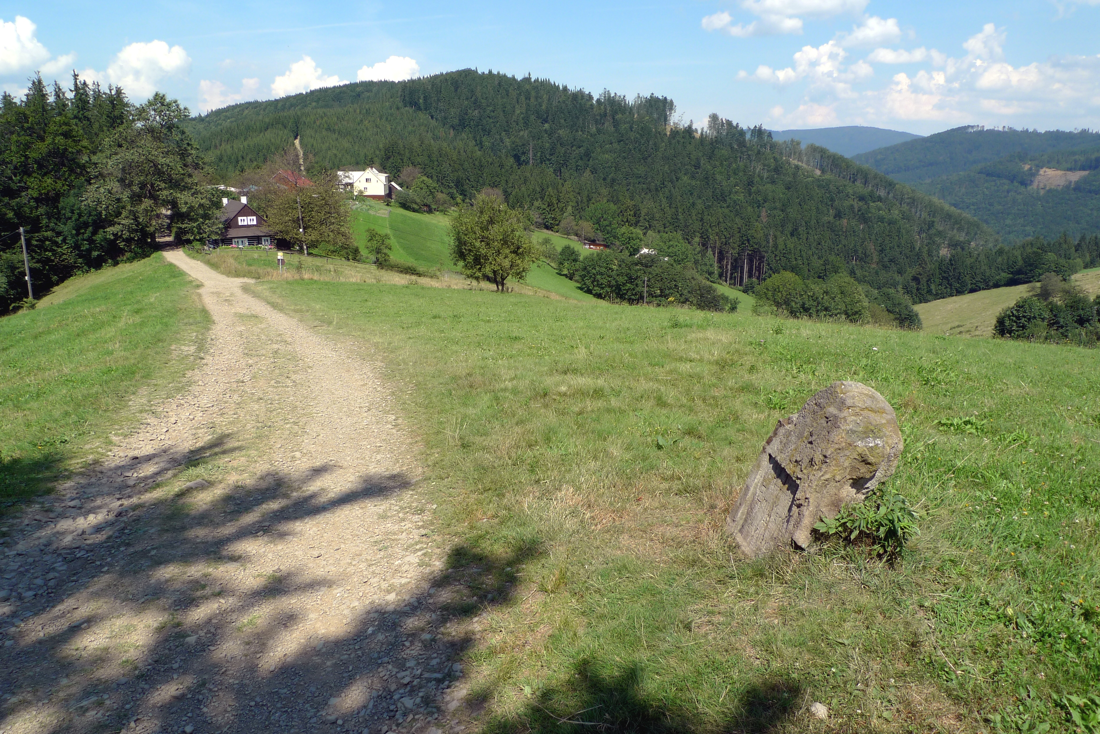 Meadow Filipka near Nýdek, Silesian Beskids, Czech Republic